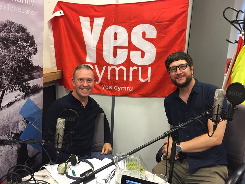 Radio YesCymru, Cardiff Eisteddfod 2018